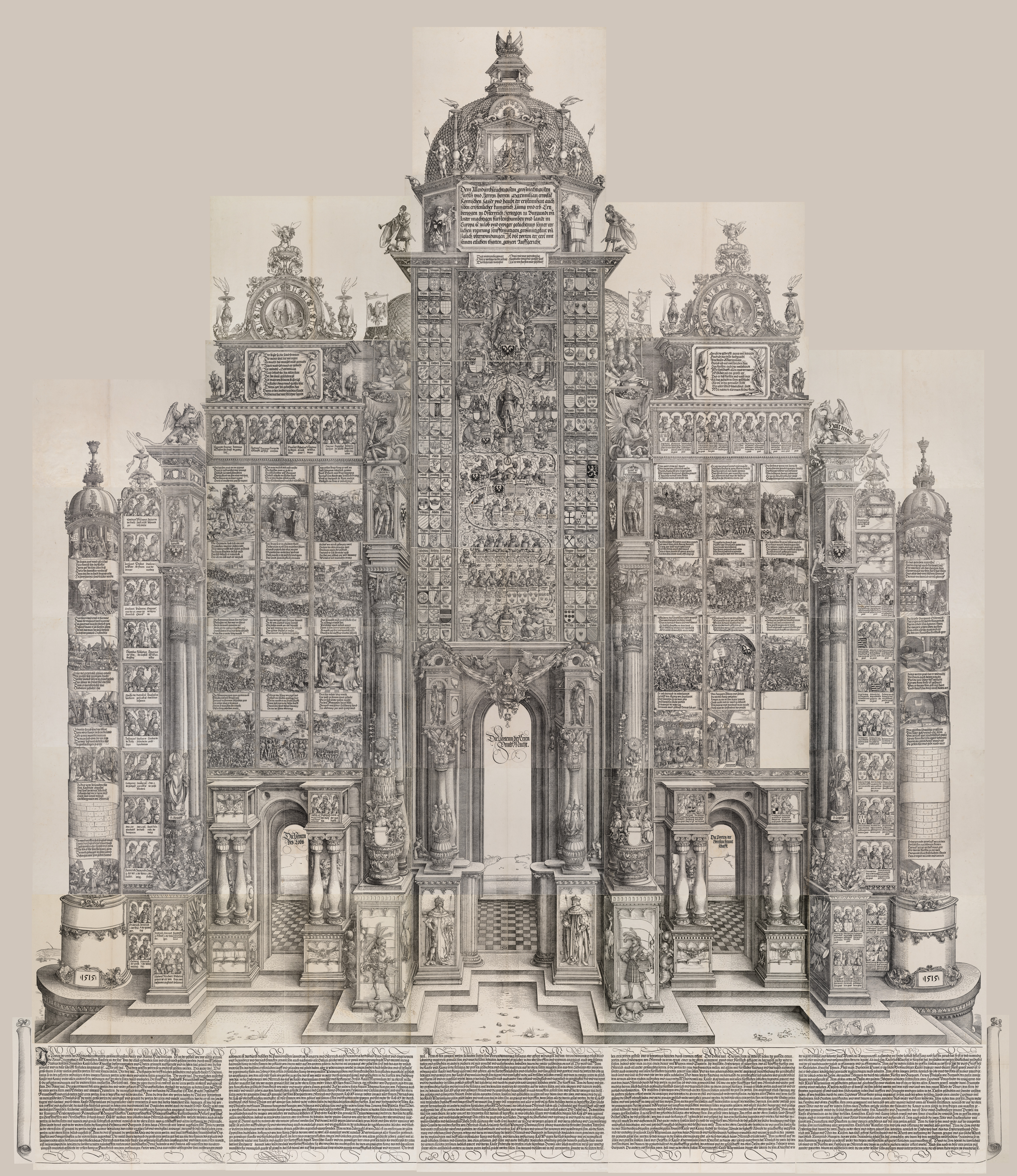 36 sheets of large folio paper printed from 195 woodblocks